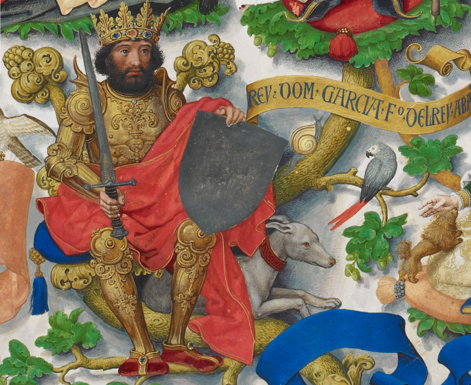 Garcia II Sanchez, King of Navarra, son of Sancho Abarca